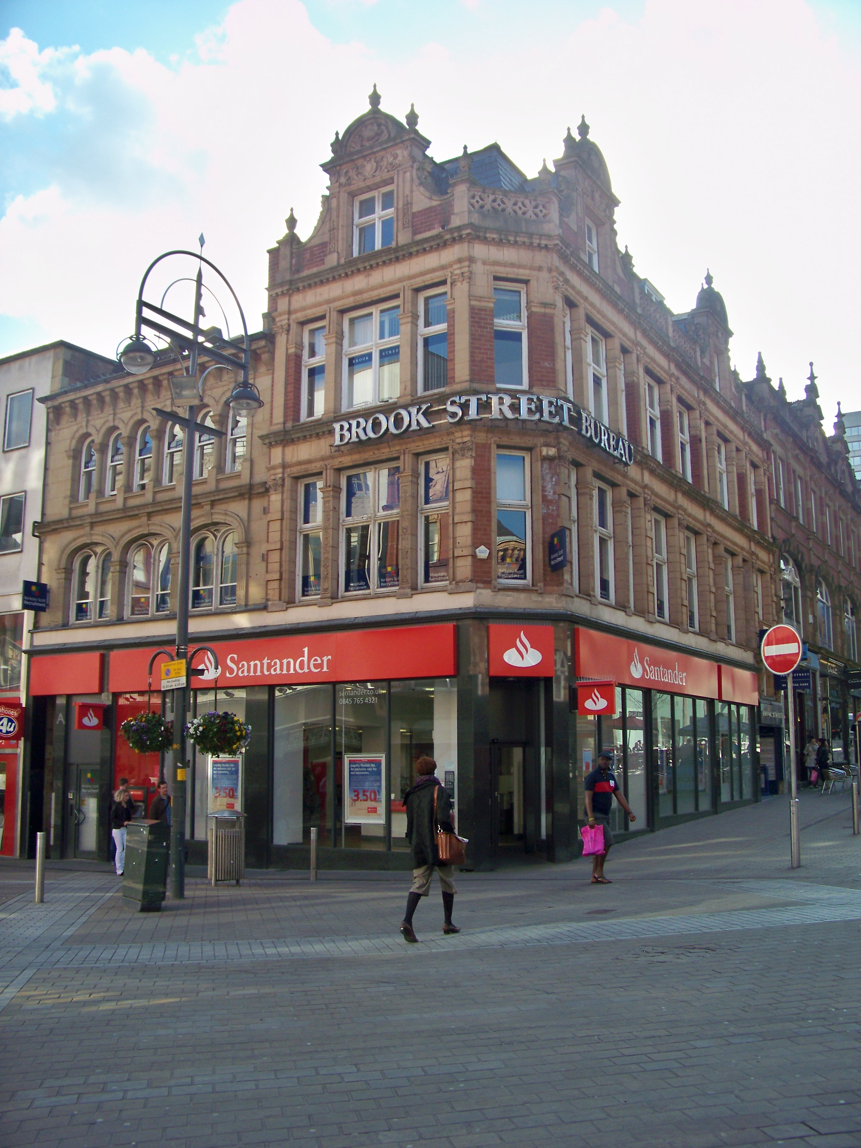 A branch of Santander on Briggate in Leeds, West Yorkshire. Until recently, this had been a branch of the Alliance and Leicester. Taken on the afternoon of Monday the 11th of April 2011. A picture of this as Alliance and Leicester can bee seen here: File:Briggate and Albion Place (24th July 2010).jpg.